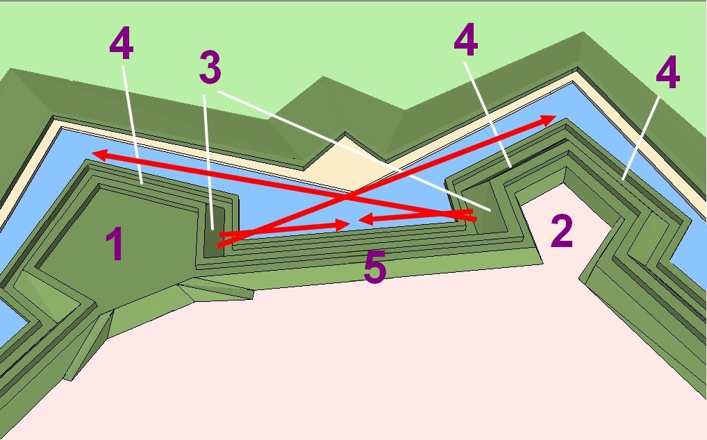 Bastion, fortifications